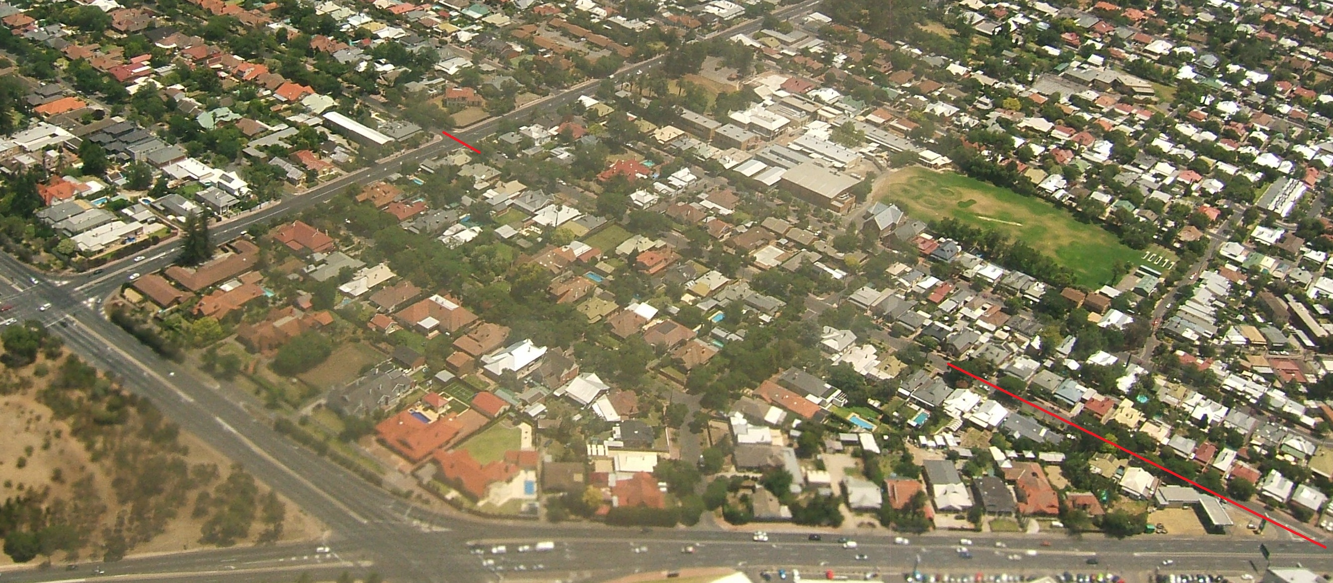 Aerial view of the said location in Adelaide